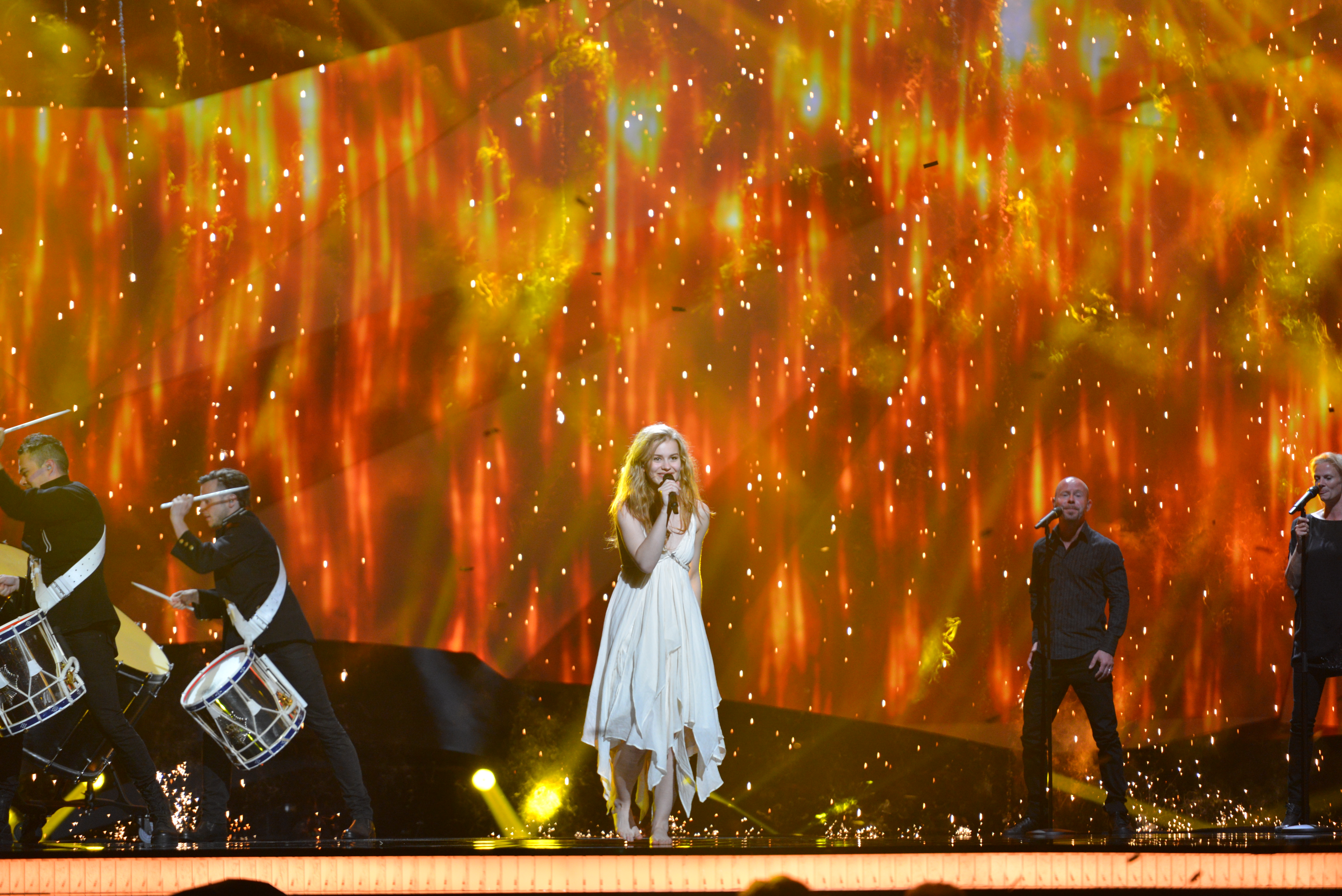 Emmelie de Forest representing Denmark with the song "Only Teardrops" during the first dress rehearsal of the final of the Eurovision Song Contest 2013 in Malmö. (Help translate this text)